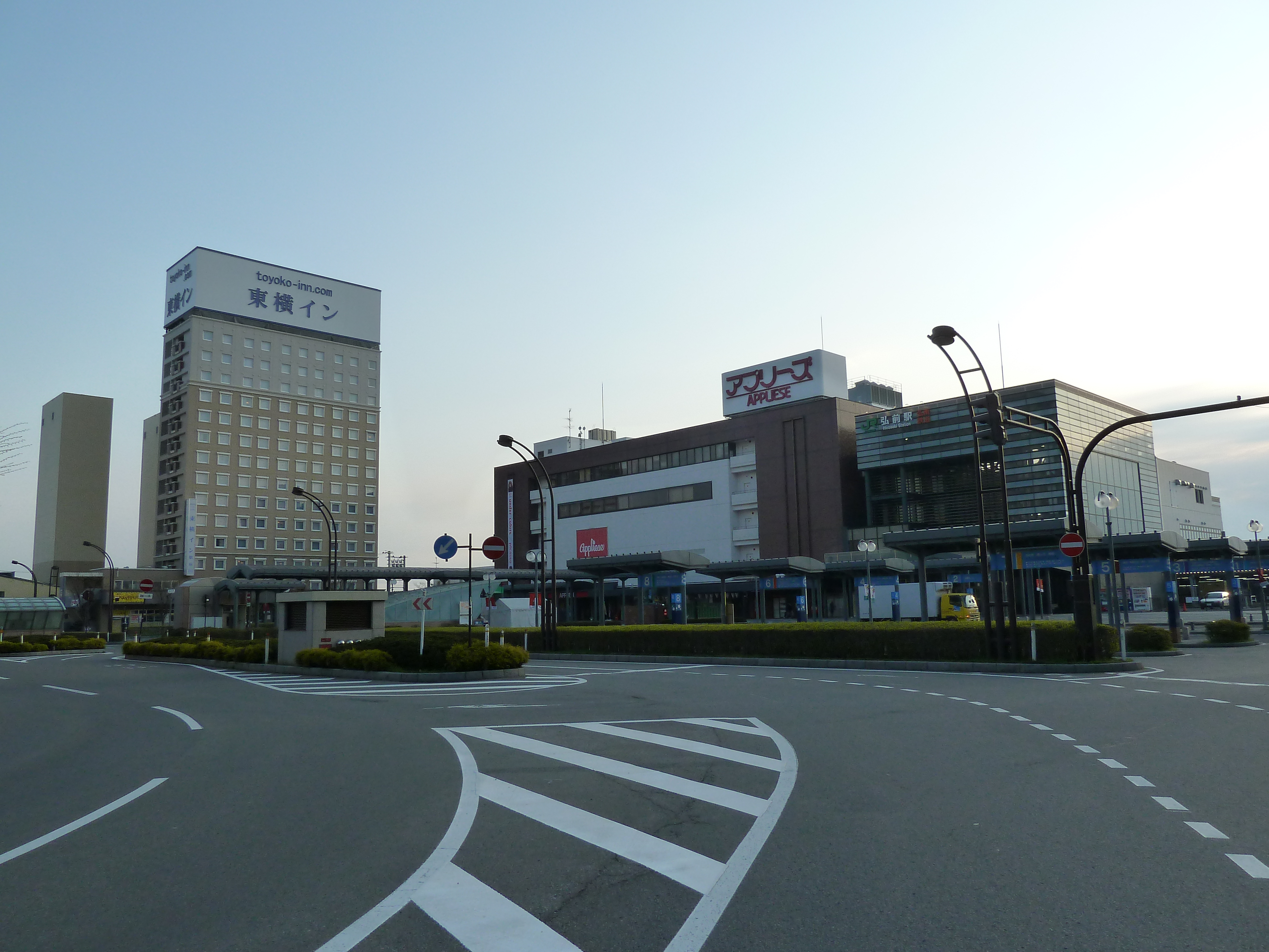 弘前駅